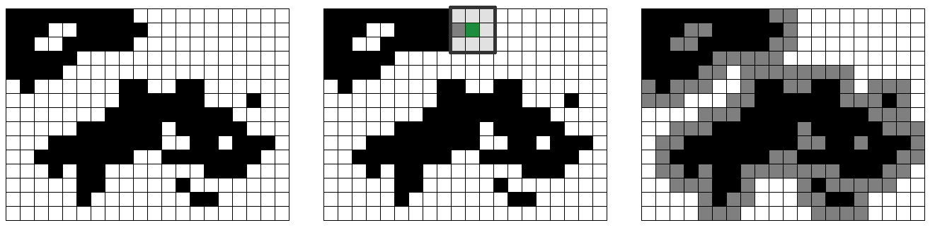 Example of morphological dilation on binary picture.